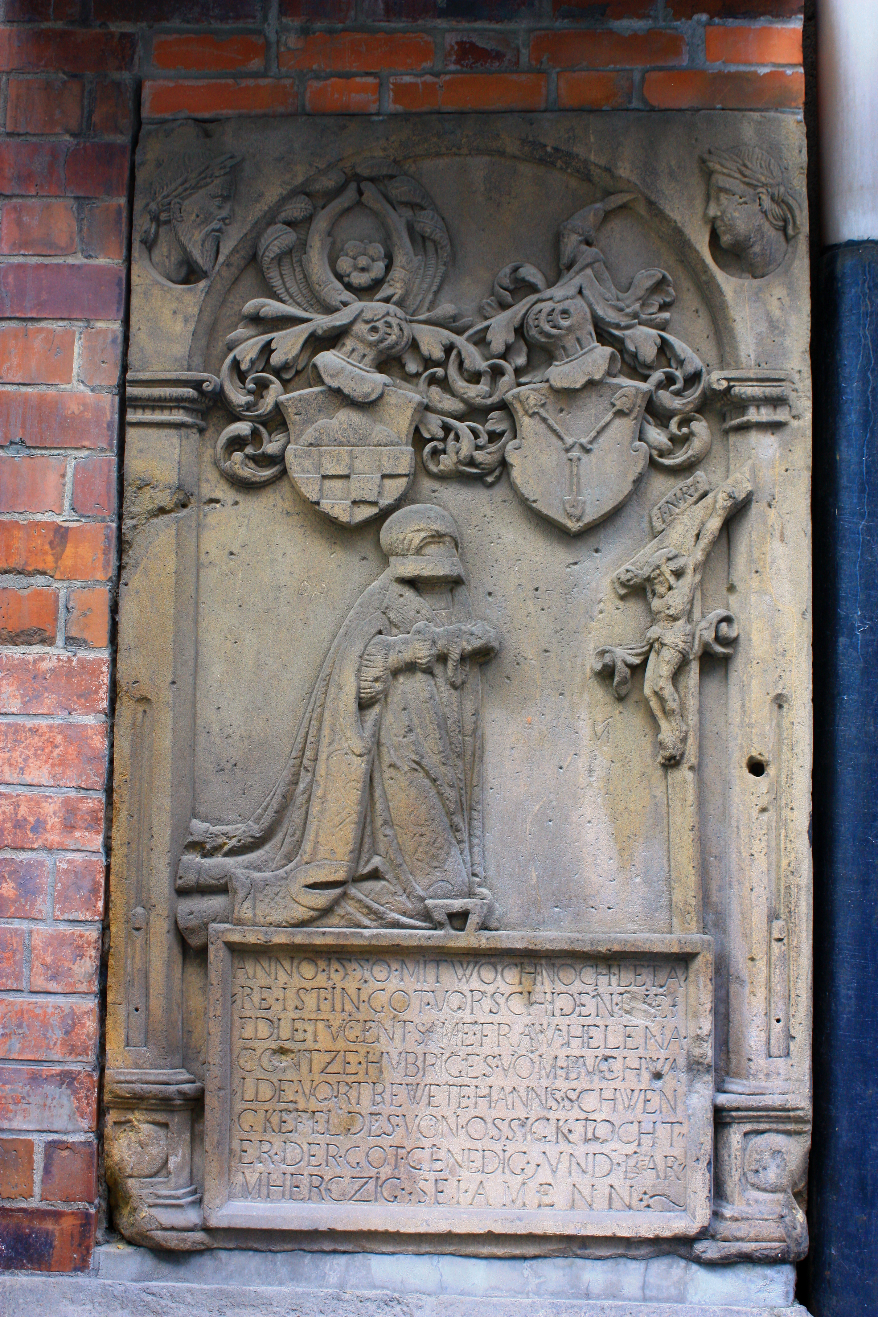 Epitaph for Helena Hubrig from Andreas Walther II at the St. Mary Magdalene Church, Wrocław